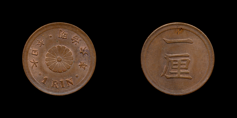 1rin-M6